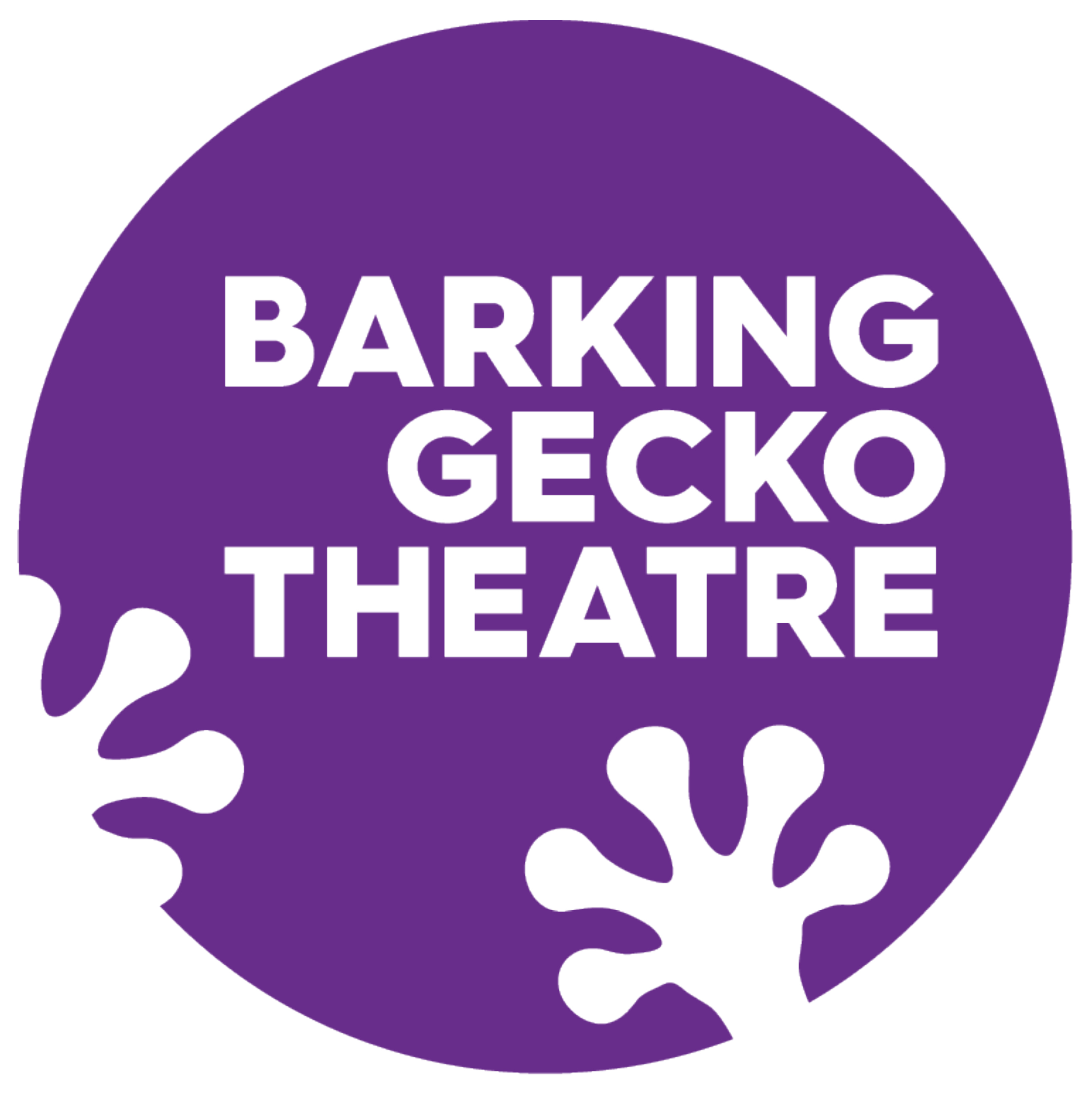 Barking Gecko Theatre Logo